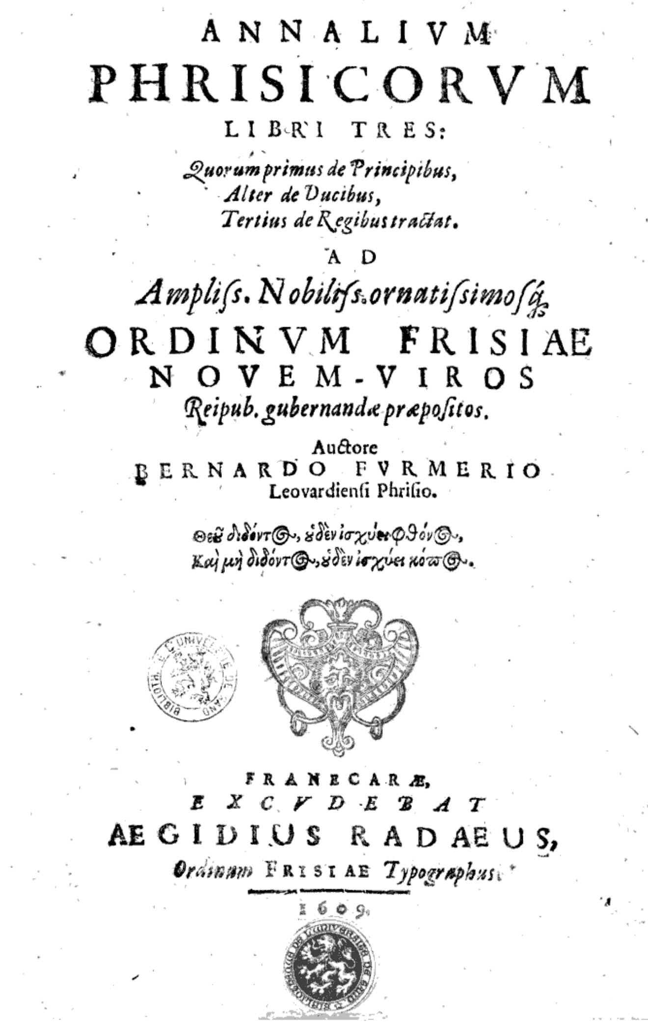 Bernardus Furmerius (1542–1616) Annalium Phrisicorum libri tres.